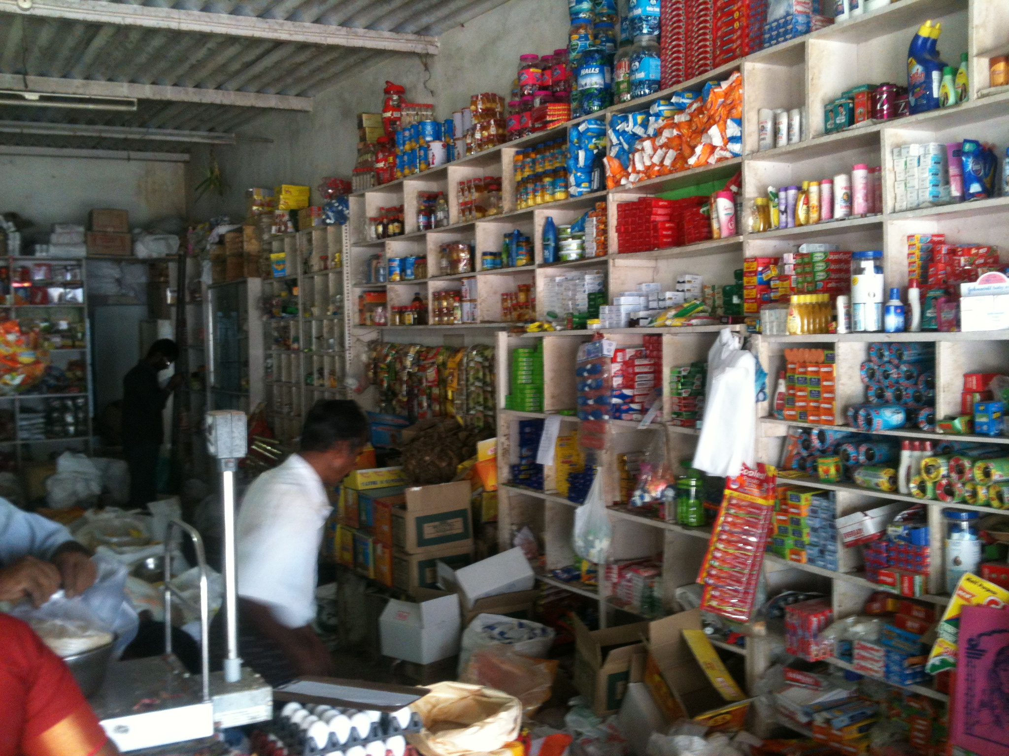 A Rural Grocery Shop in South India